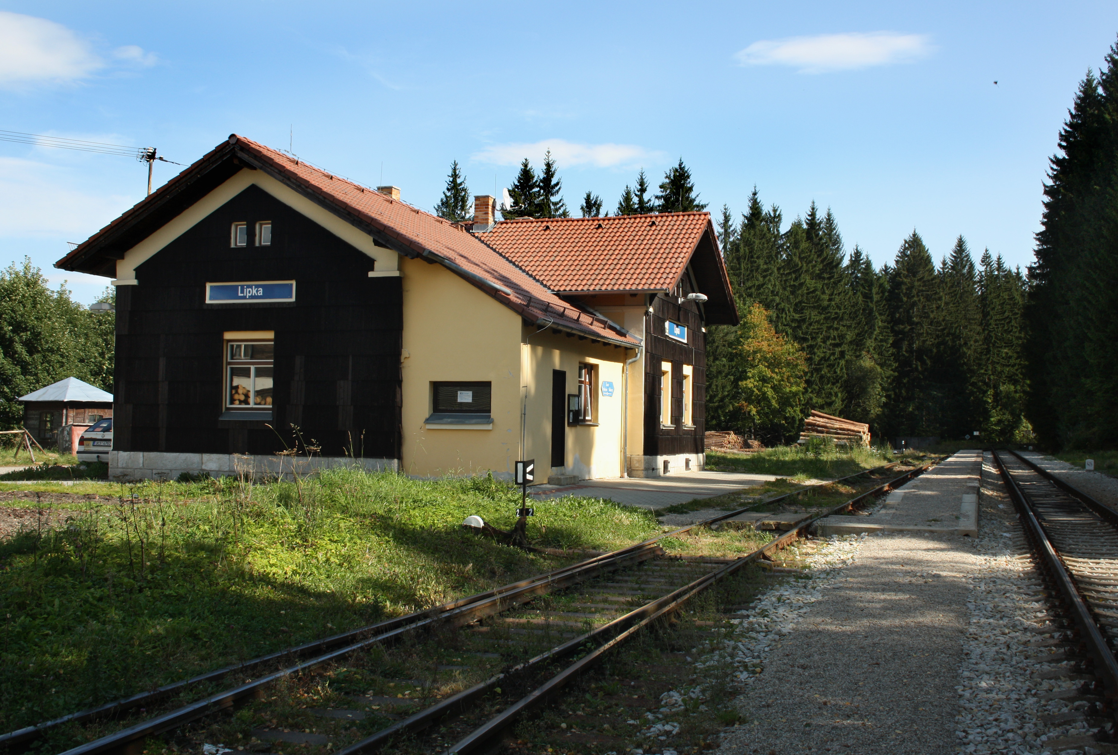 Train station in Lipka, part of Vimperk, Czech Republic